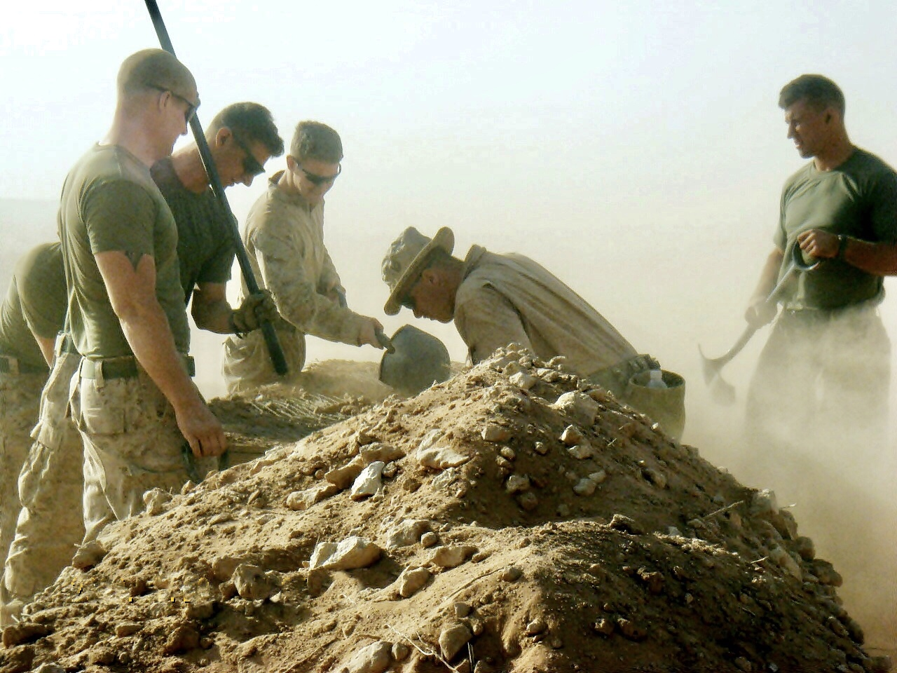 ANBAR PROVINCE, Iraq (July 28, 2009) Marines from Task Force Personnel Recovery (TF MP) of Multi-National Force-West conduct recovery efforts at the crash site of U.S. Navy Capt. Michael Scott Speicher, whose F/A-18 was shot down by Iraqi MiG-25 over Anbar province, Iraq, Jan. 17, 1991. (U.S. Marine Corps Photo/Released) These Marines are from 2nd Platoon, Kilo Company, 3rd Battalion 3rd Marines. Palm dogg (talk) 20:13, 3 December 2011 (UTC)